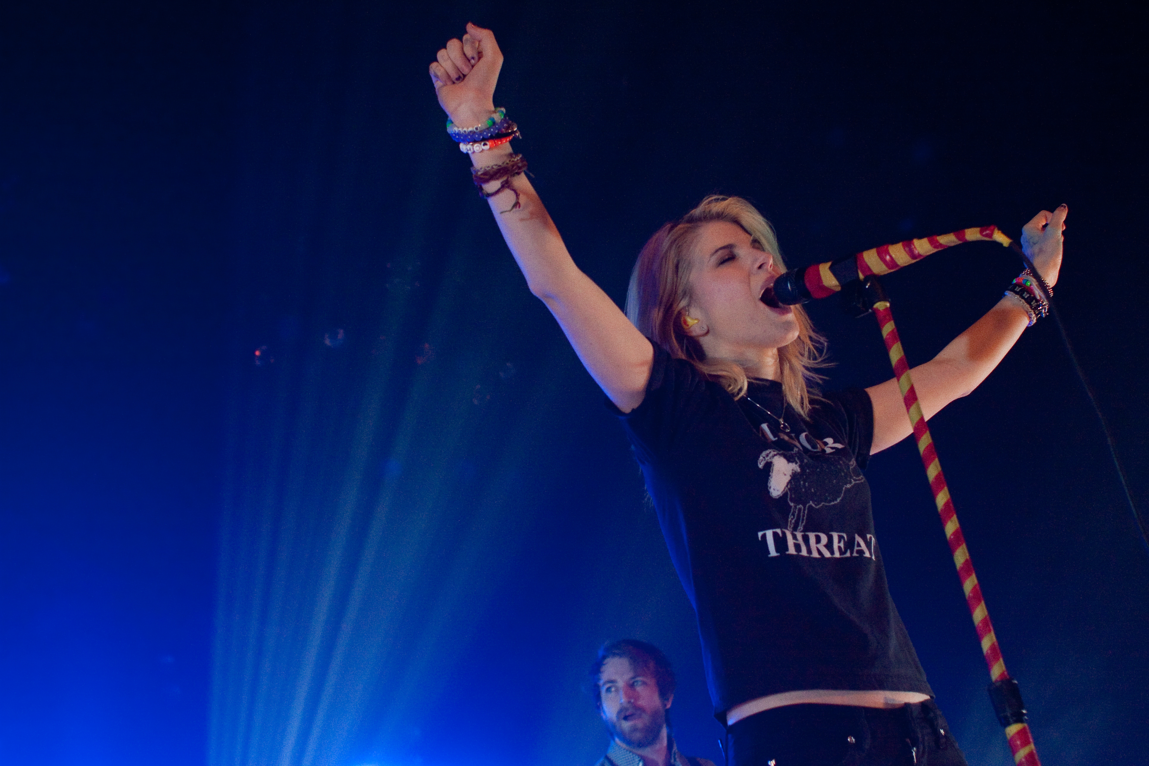 Hayley Williams performing with Paramore at the Warfield